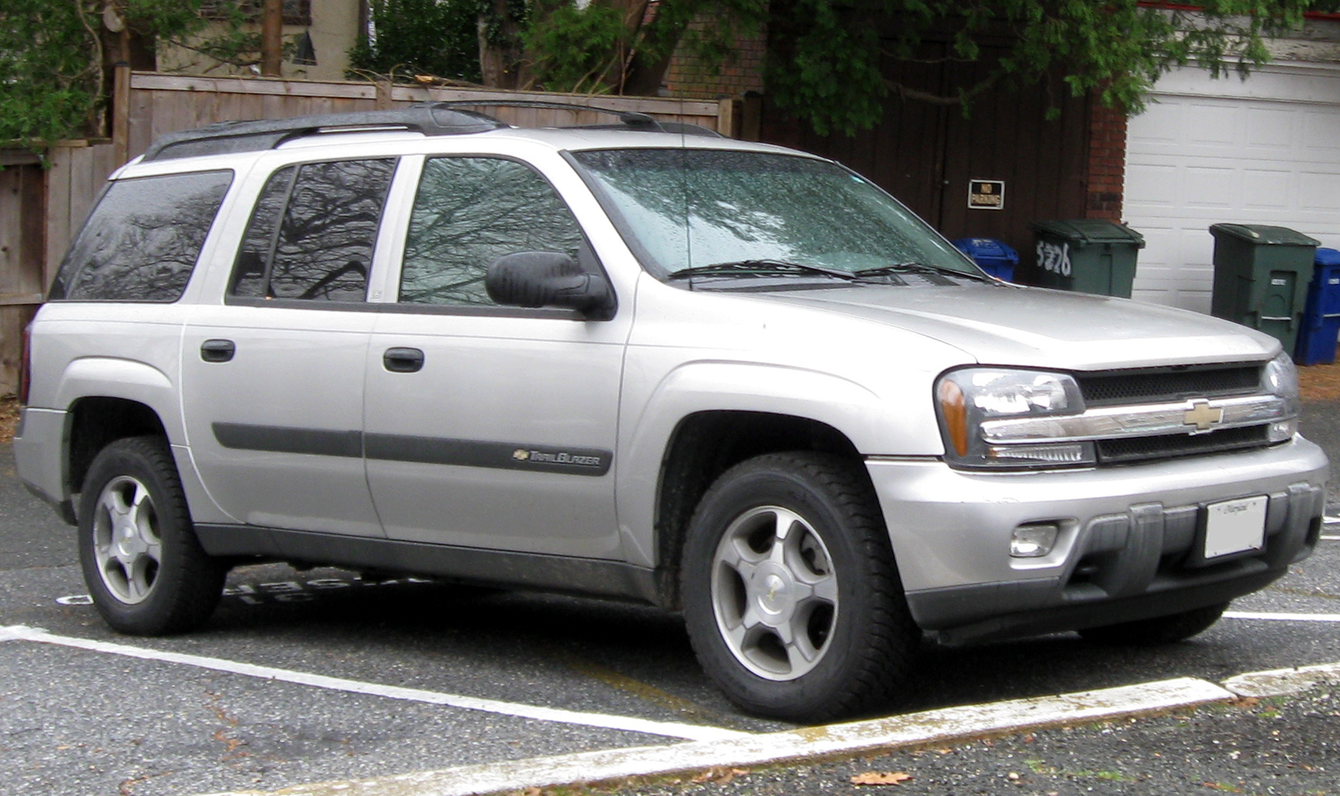 Chevrolet TrailBlazer EXT photographed in Washington, D.C., USA.